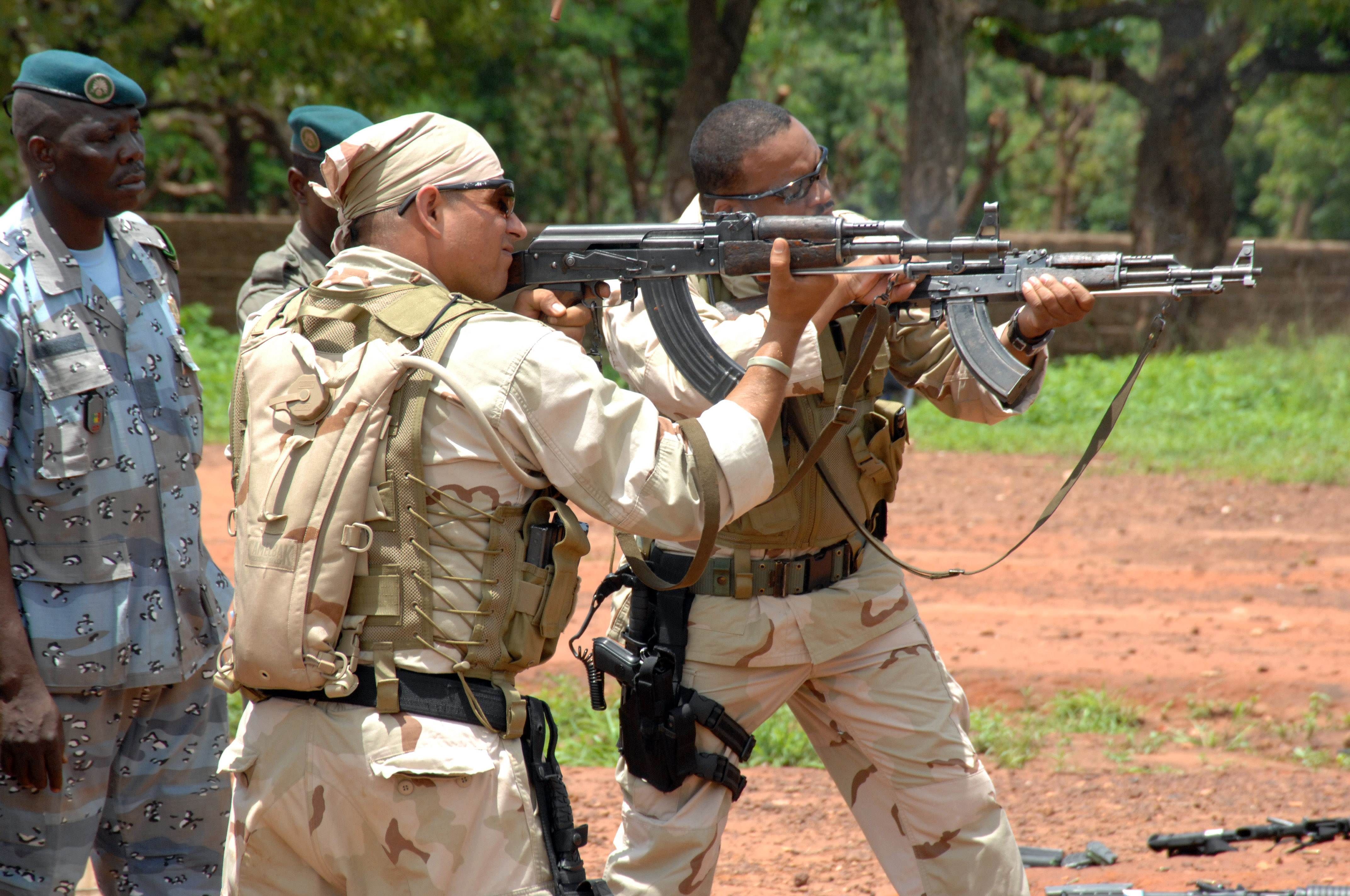 BAMAKO, Mali (Aug. 22, 2007) - U.S. Navy Force Protection Sailors assigned to Mobile Security Detachment 21 out of Portsmouth, Va., fire AK-47 rifles at the Gendarme training range before the start of exercise Flintlock 2007. The exercise, which is meant to foster relationships of peace, security and cooperation among the Trans-Sahara nations, is part of the Trans-Sahara Counterterrorism Partnership (TSCTP). The TSCTP is an integrated, multi-agency effort of the U.S. State Department, U.S. Agency for International Development and the U.S. Defense Department. U.S. Air Force photo by Tech. Sgt. Roy Santana (RELEASED)